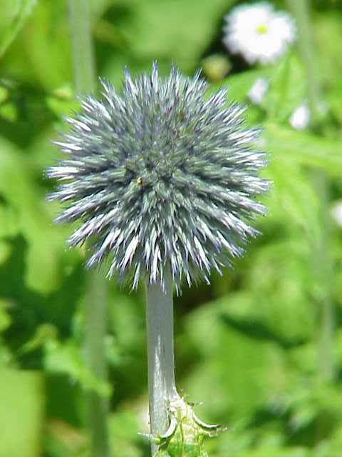 Name: Echinops humilis, Family: Compositae, Image no. 1